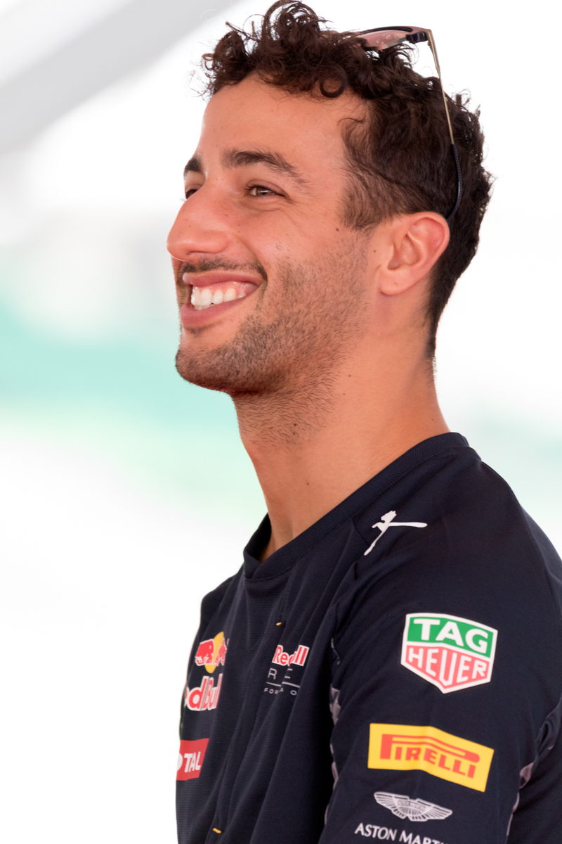 Formula One 2016 Rd.16 Malaysian GP: Daniel Ricciardo (Red Bull Racing)